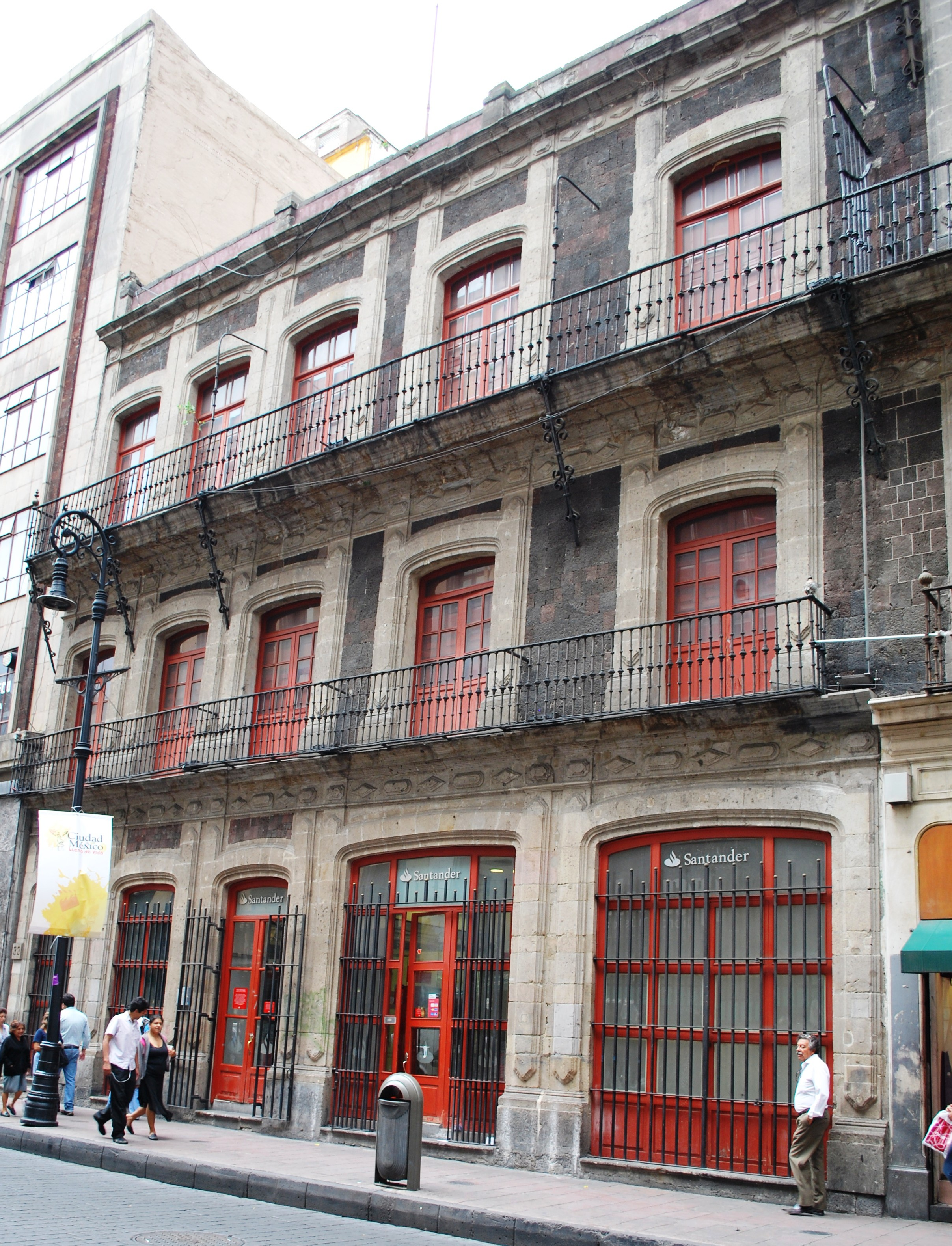 House built by silver magnate Josef Borda at Madero Street 33 in the historic center of Mexico City. "There supposed to be a small museum here run by the bank here but damned if I can find it! The museum closed a few years ago…"